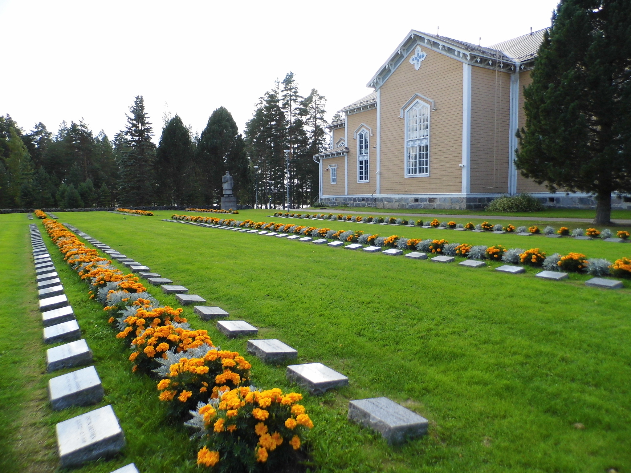 Military cemetary at church in Pielavesi, Finland